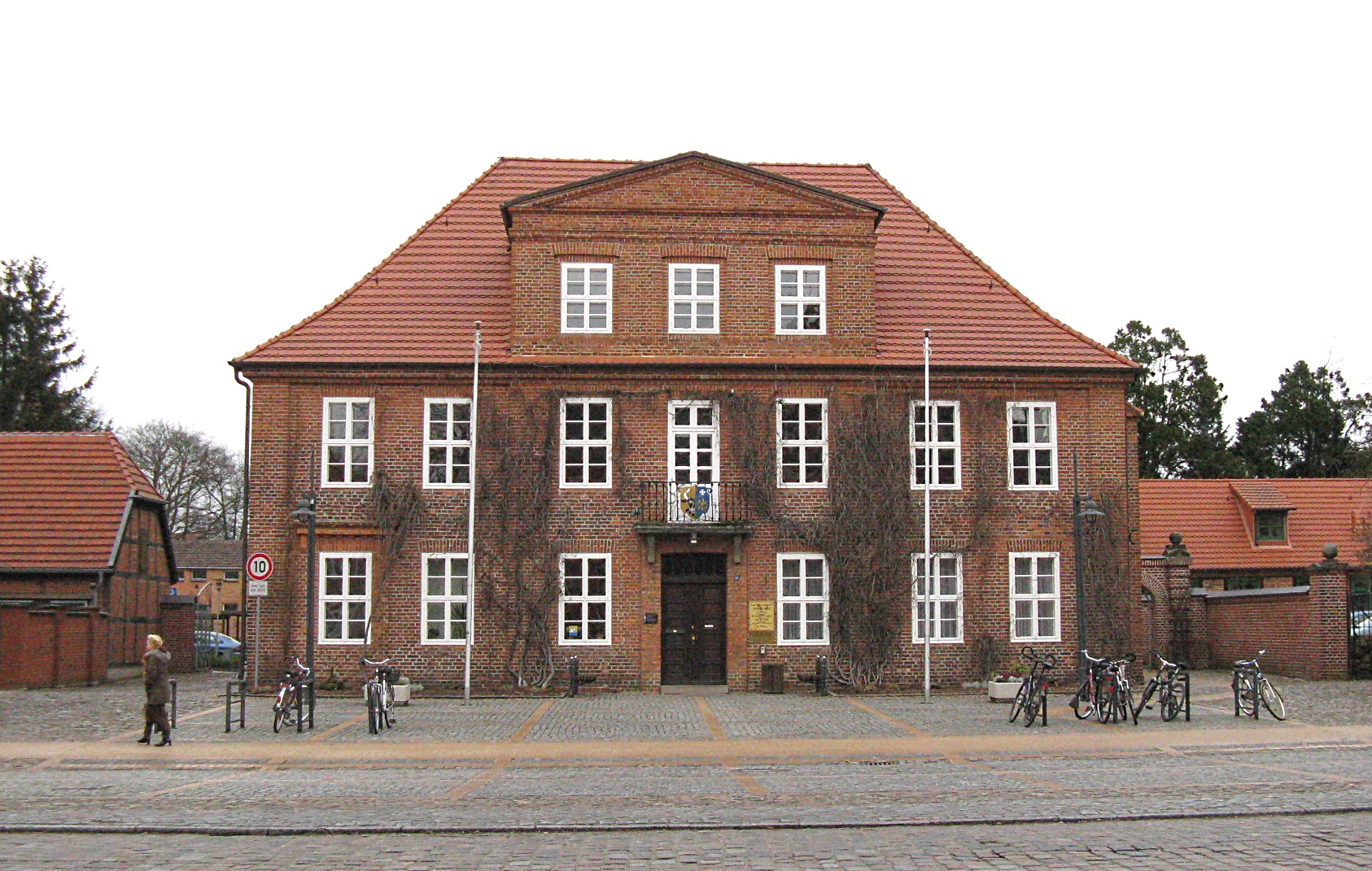 Town Hall in Ludwigslust, Germany